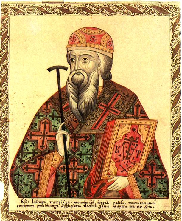 Patriarch Joseph of Moscow. A 19th-century hand-drawn lubok.